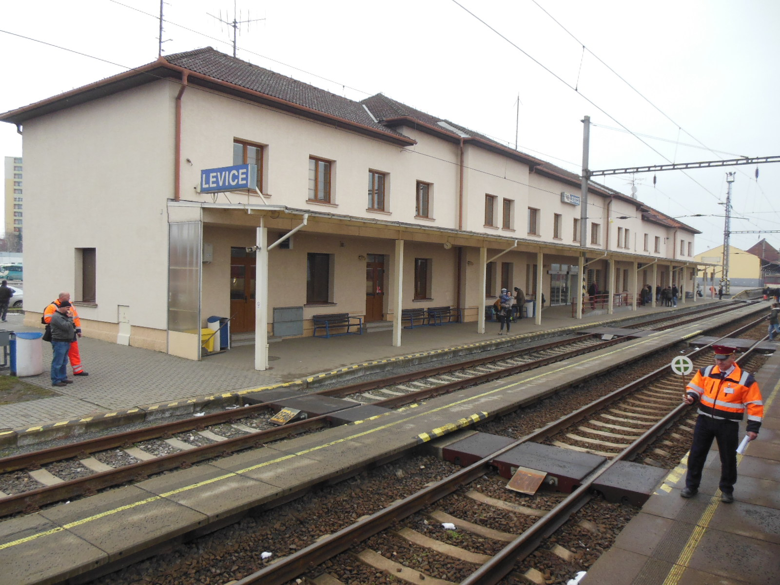 Railway station in Levica, Slovakia in February 2018.